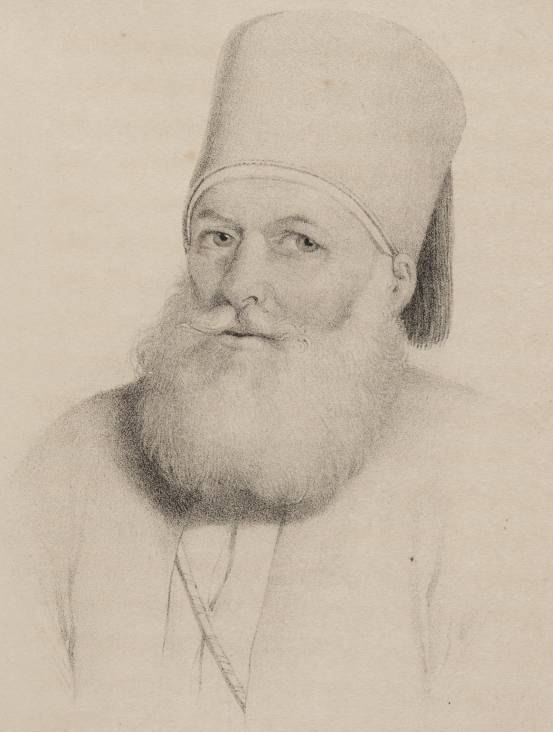 Bust of Mehemet Ali.